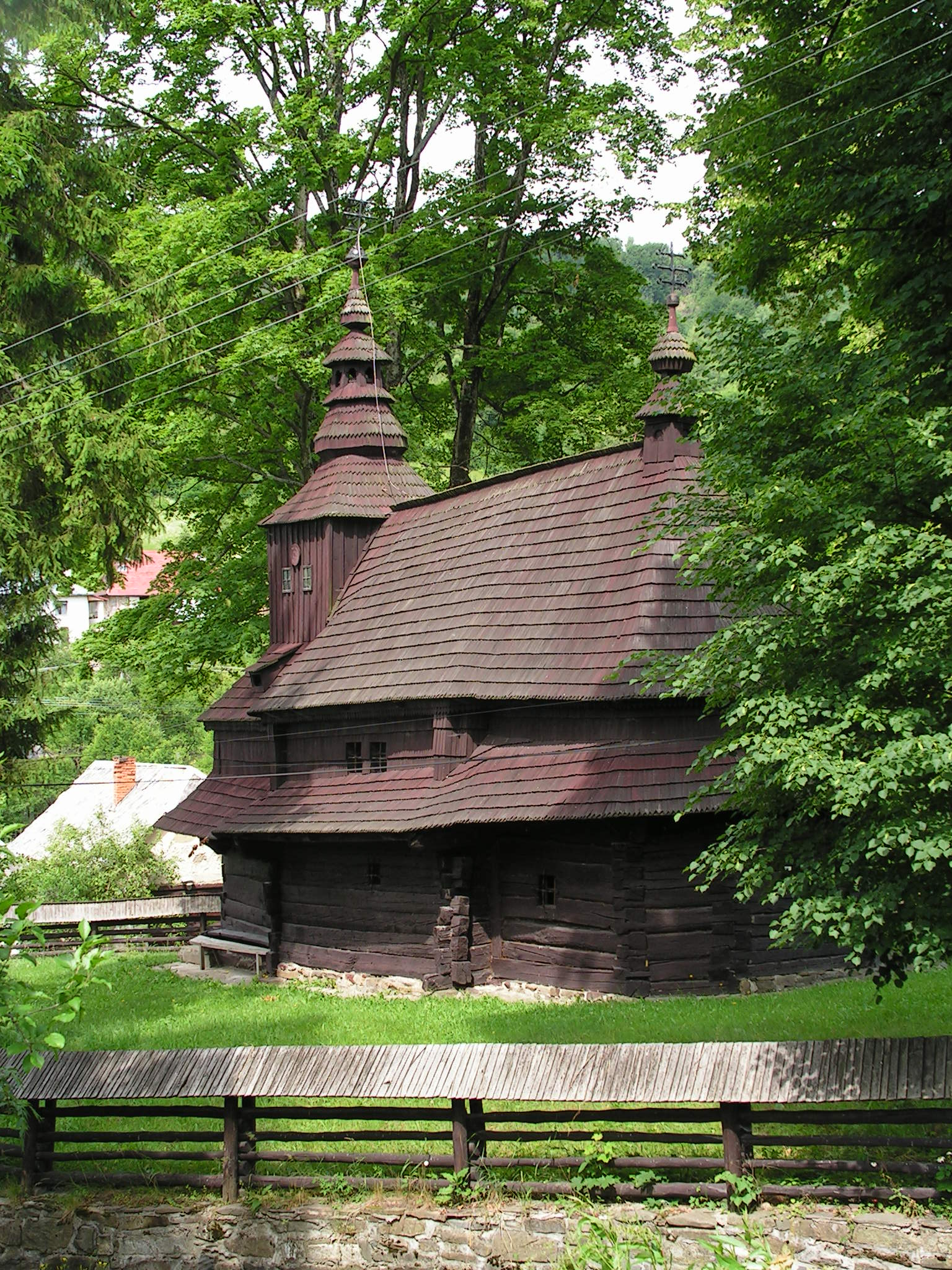 Ruský Potok wooden church